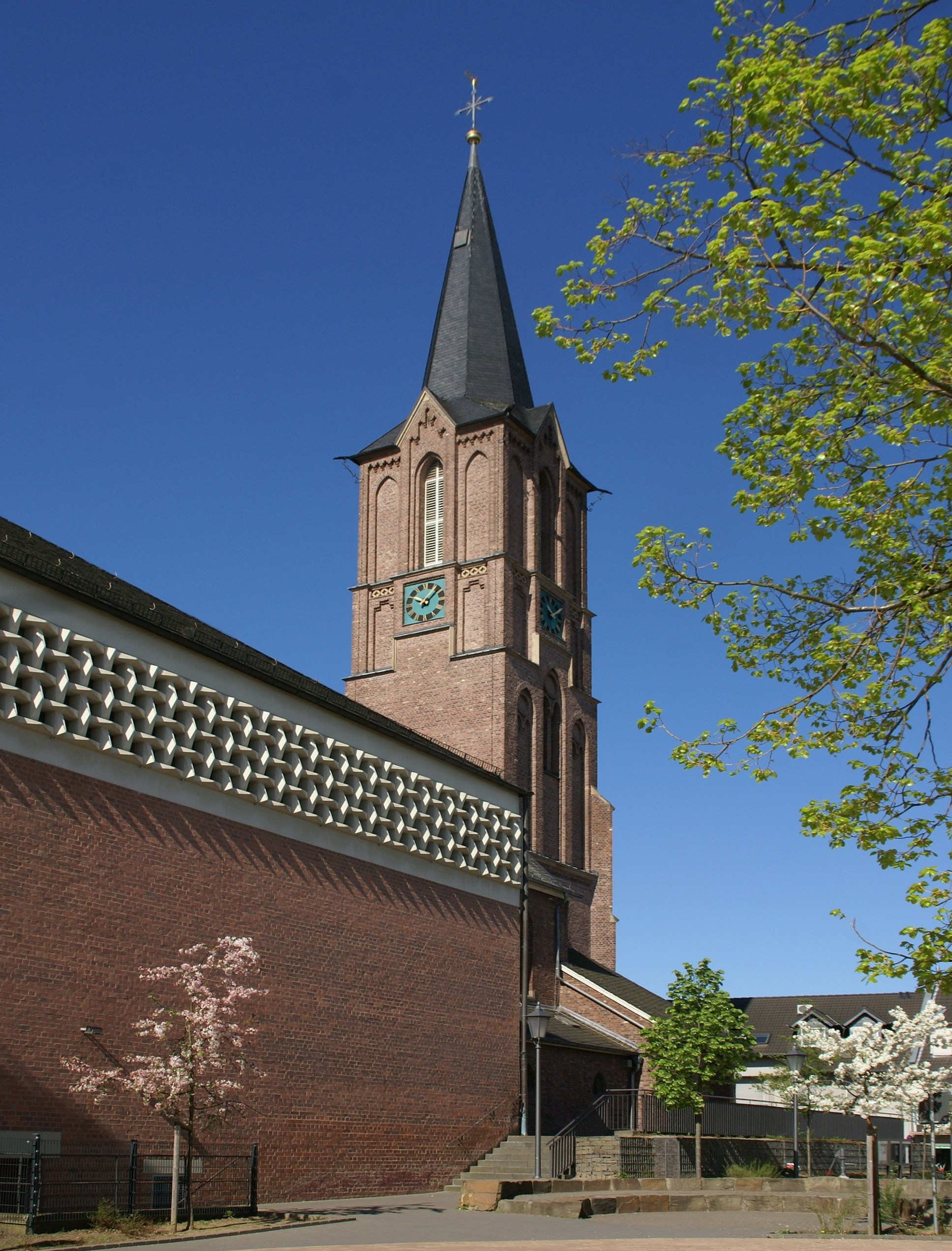 Catholic church St. Lambertus in Witterschlick